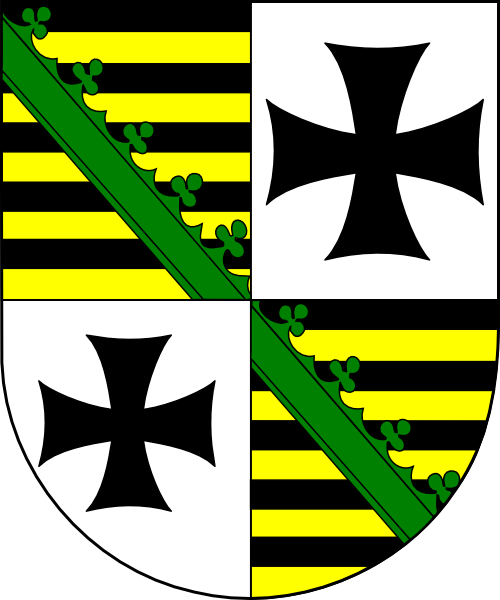 Coat of arms (shield only) of Christian August cardinal von Sachsen - Zeitz, bishop of Győr, Hungary (1696 - 1725), archbishop of Esztergom (1707 - 1725).